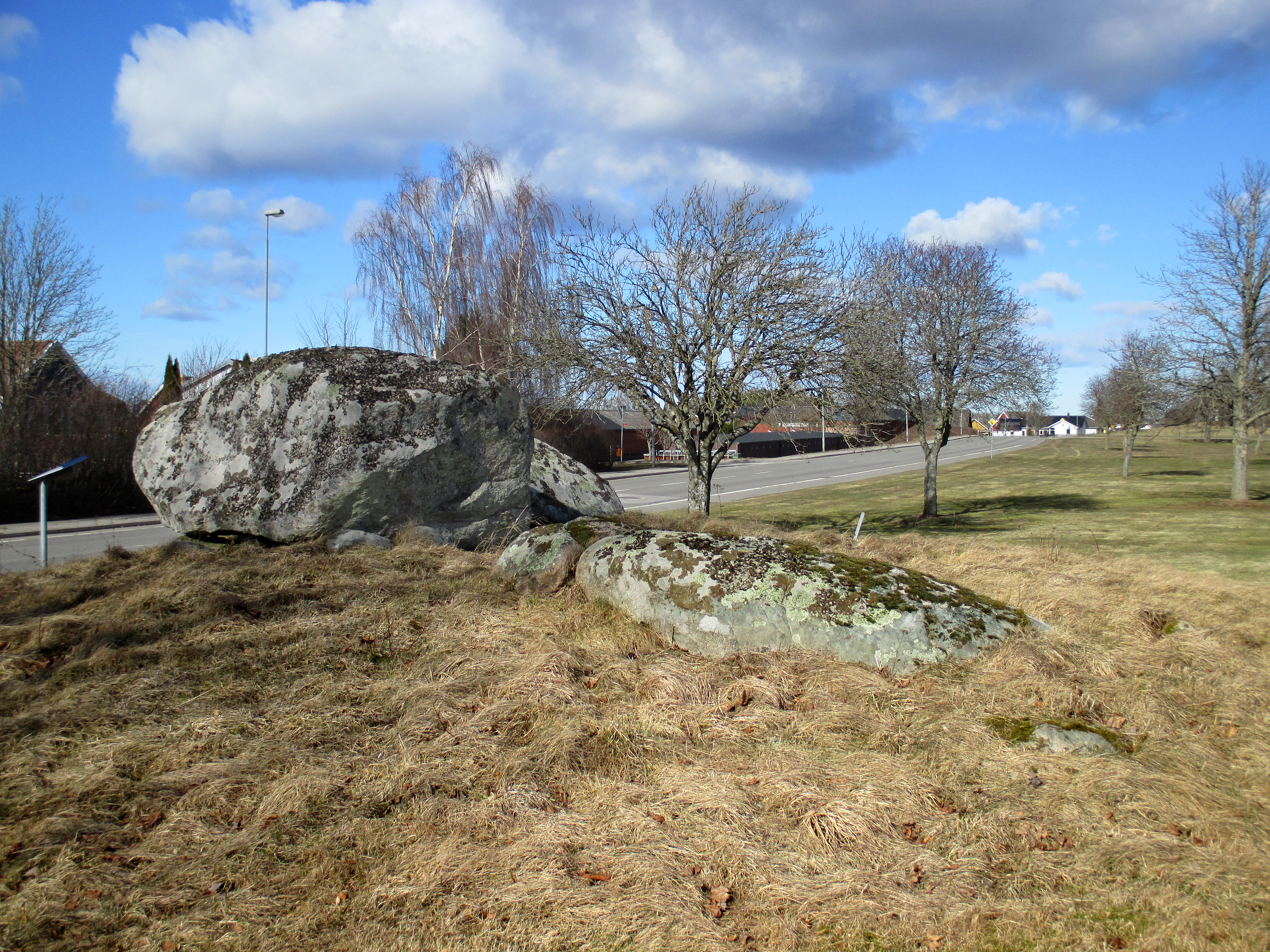 Åttagården's passage grave (RAÄ No Falköping 4:1) at Midfalegatan in Falköping, Falköping Municipality, former Skaraborg County, Västergötland, Västra Götaland County, Sweden.